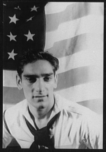 Title: Portrait of Frank Piro, "Killer Joe" Abstract/medium: 1 photographic print : gelatin silver.